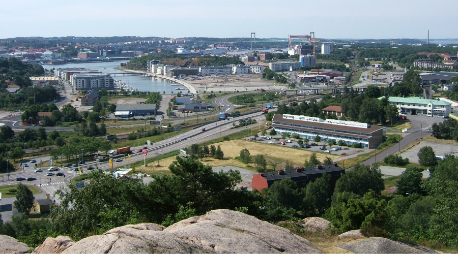 Göteborg, Sweden, seen from the hill Ramberget